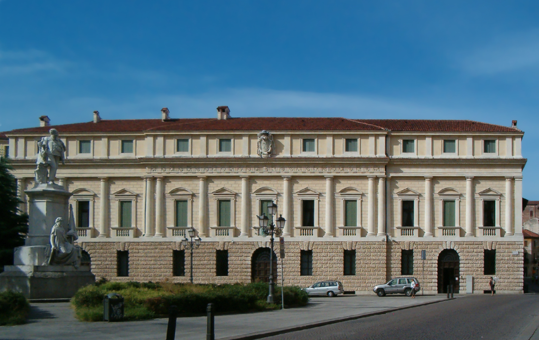 Piazza Duomo and Palazzo Vescovile, Vicenza.